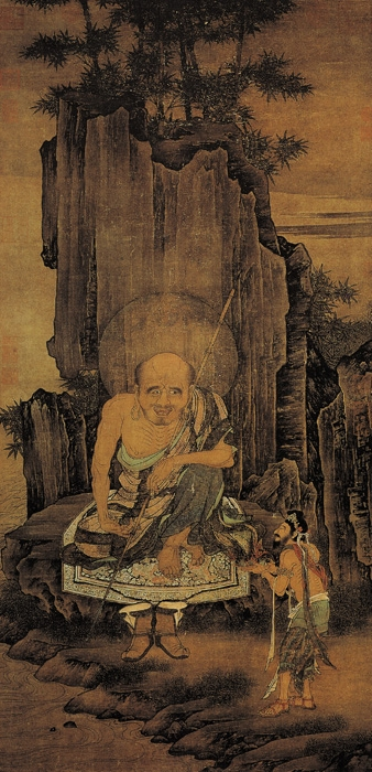 Luohan, hanging scroll, ink and color on silk, 118.1 x 56 cm. Located at the National Palace Museum, Taibei. One of a set of several.